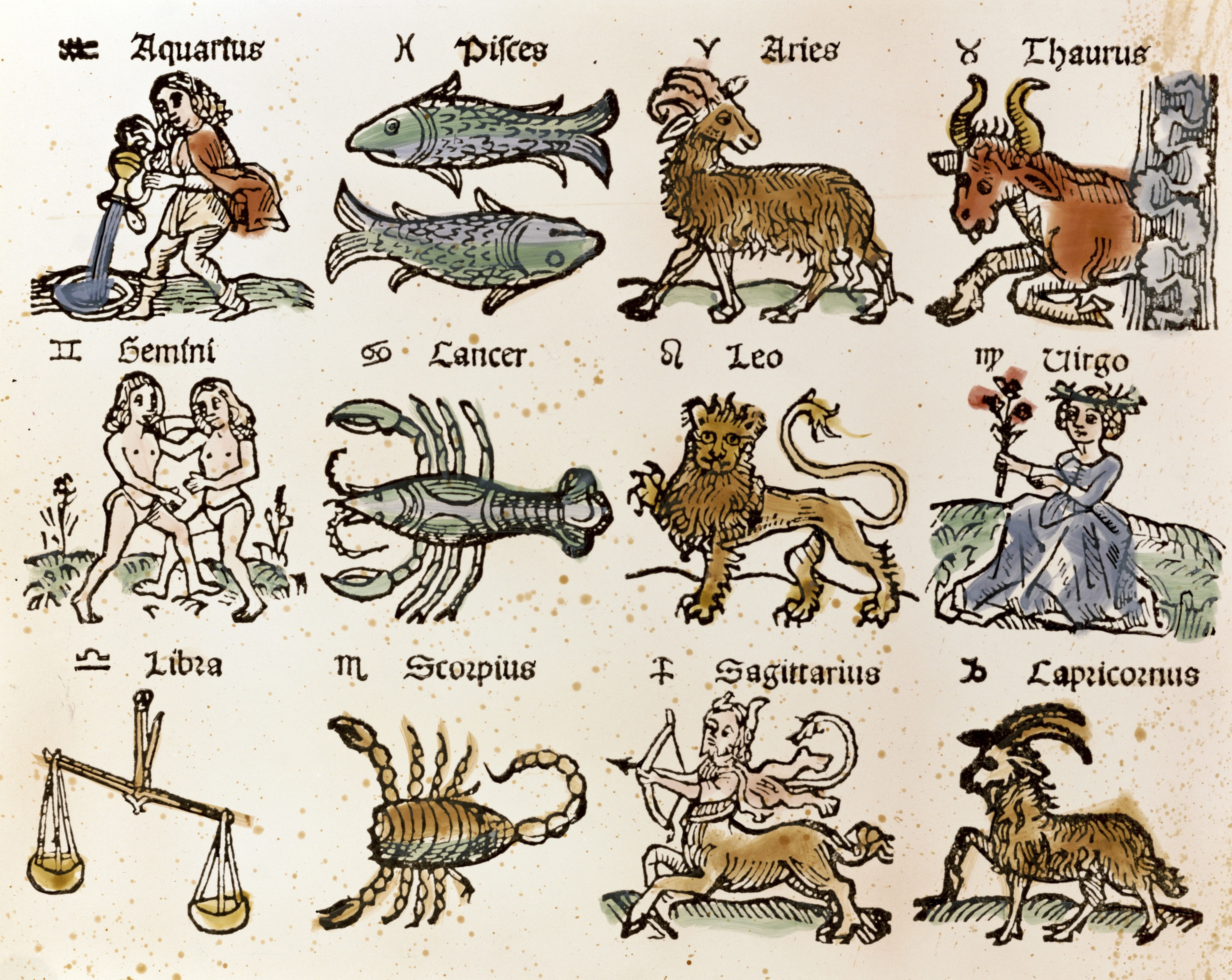 A 16th century German woodcut print of the twelve signs of the zodiac